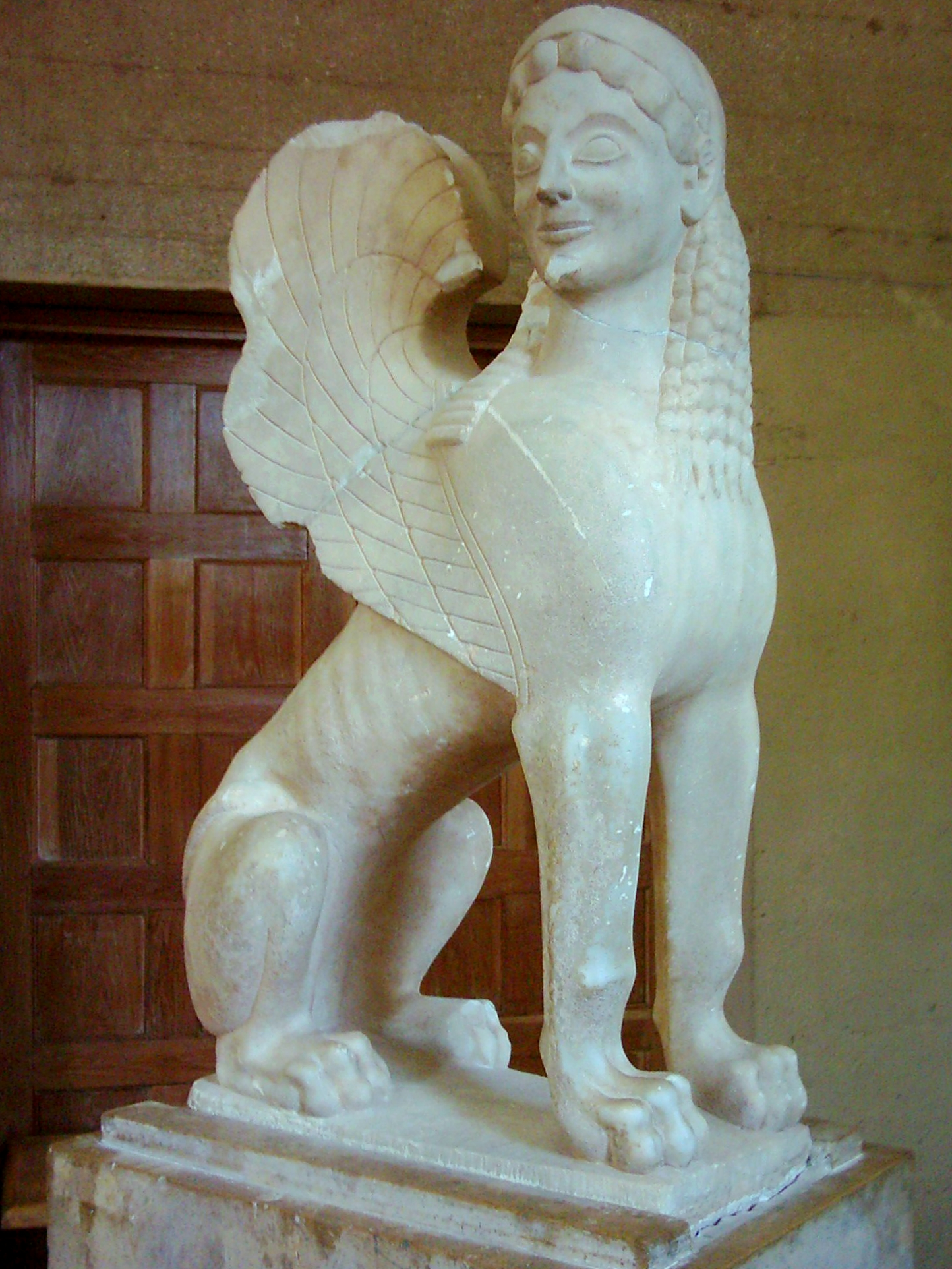 Sphinx, marble (or limestone?), from the northern cemetery of Corinth, 560-550 BC. Archaeological Museum of Ancient Corinth.